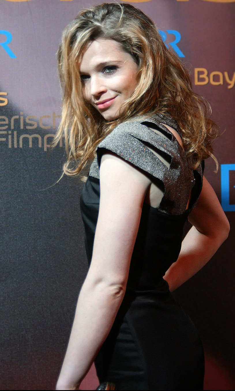 Karoline Herfurth, Bavarian Film Awards 2012 at the Prinzregententheater in Munich.